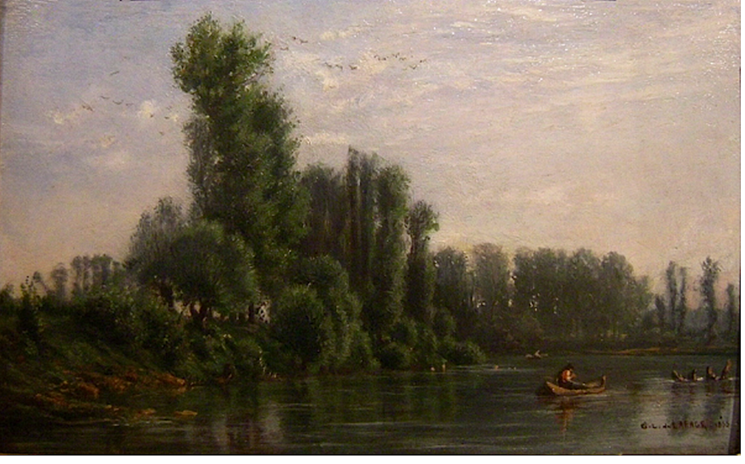 Idyllic landscape with fishermen on the river [Paysage avec pécheurs sur la rivière], oil on canvas, dim. : 25 x 15 cm, signed "G. L. de Lafage 1855".